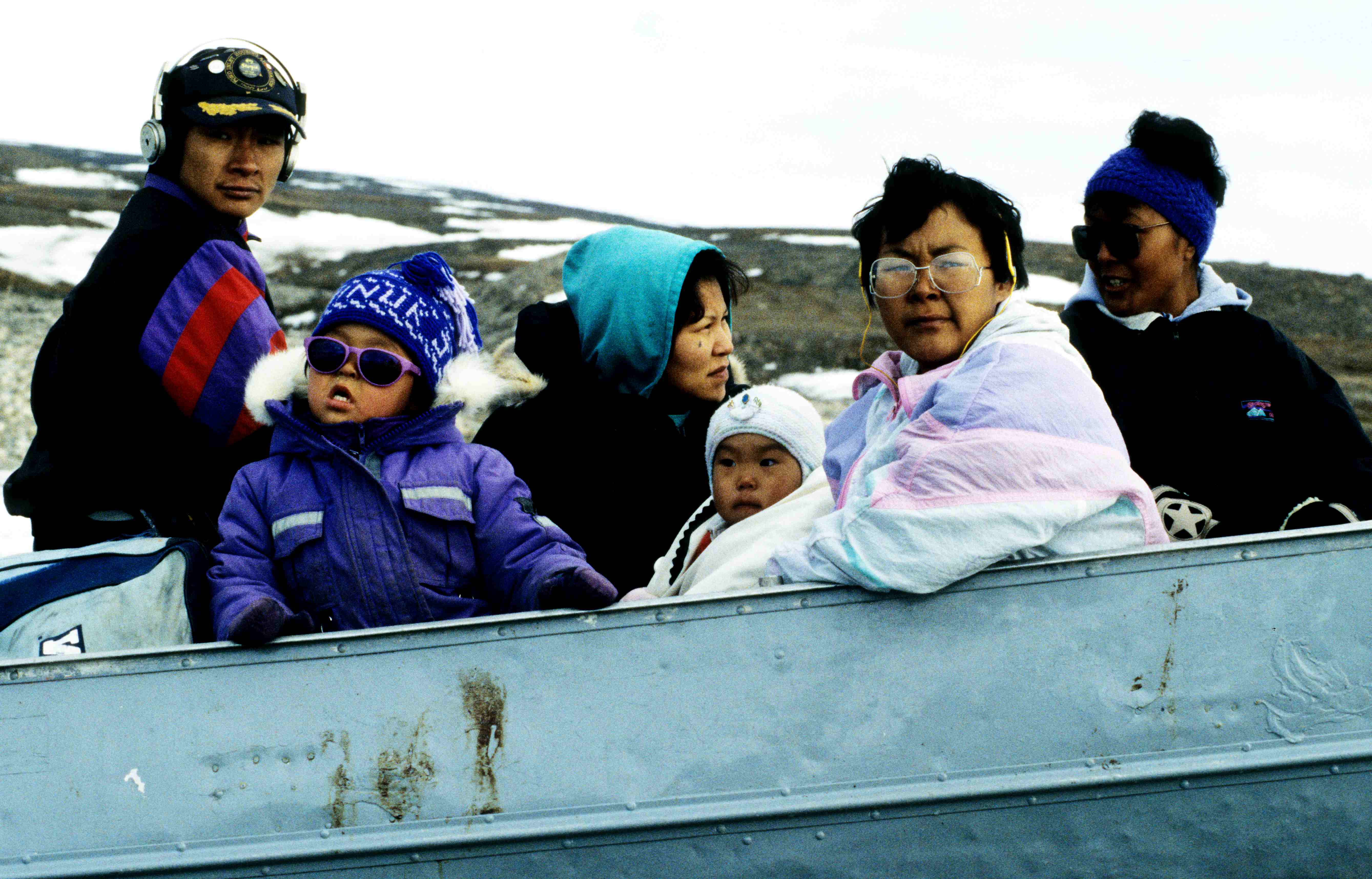 Inuit travelling in a boat on a qamutiq (sled) near Pond Inlet (Nunavut Territory, Canada)